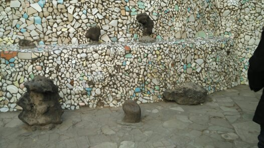 manument at rock garden